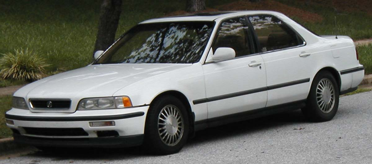 1990-1995 Acura Legend photographed in USA.